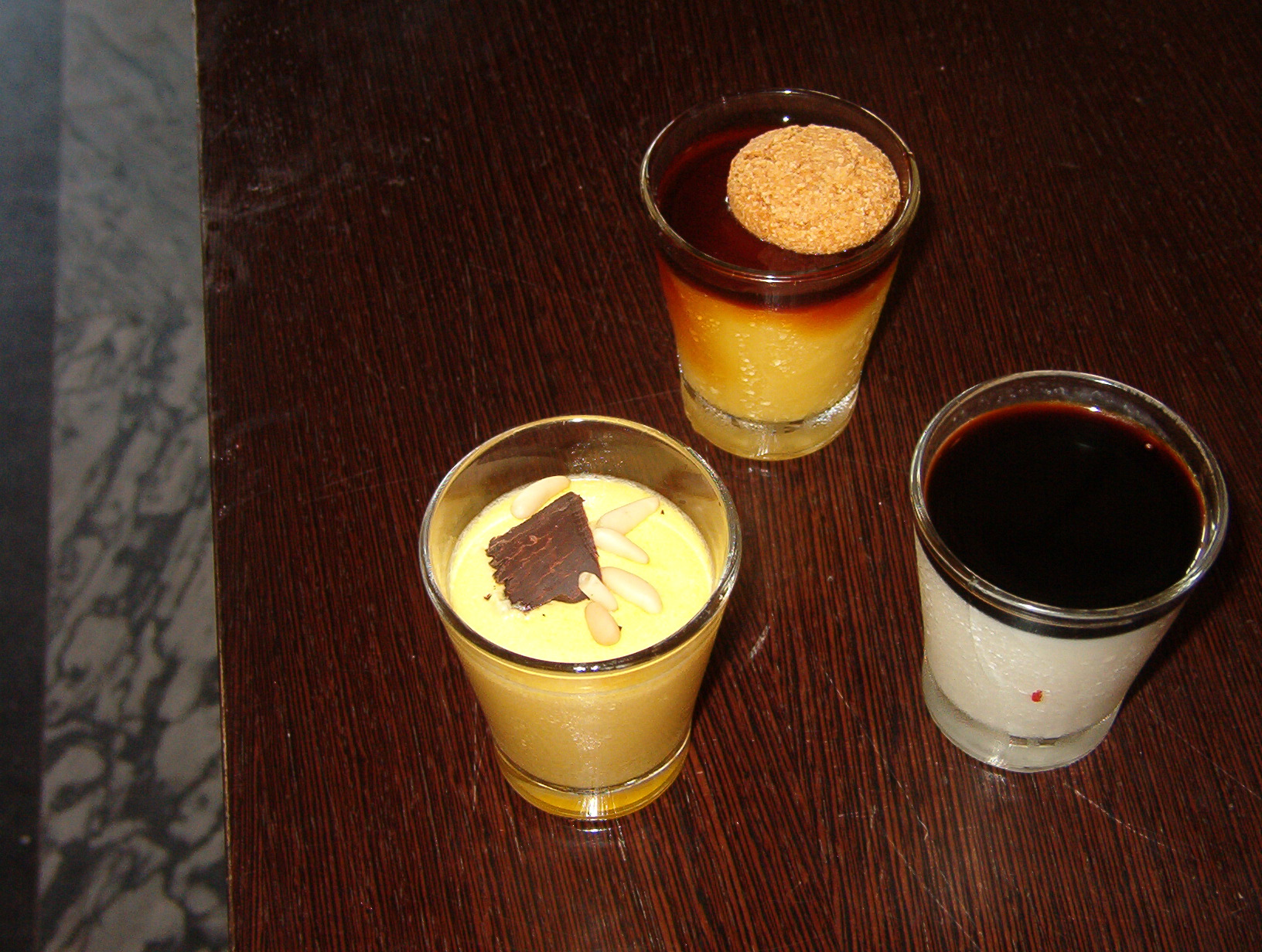 Three desserts in Modena with balsamic vinegar: clockwise from left, panna cotta, zabaglione, and crème caramel.